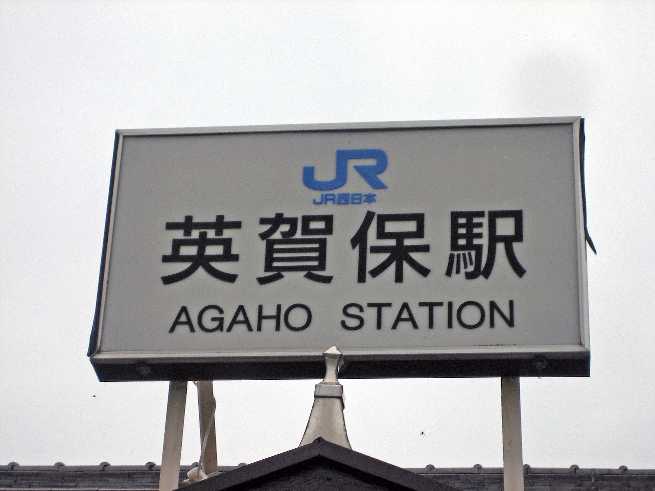 Agaho Station